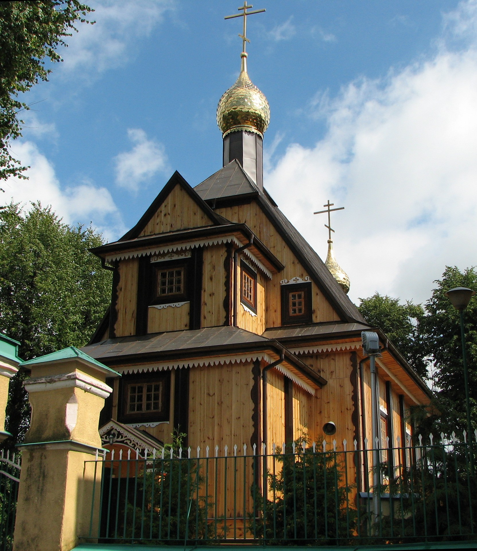 Orthodox church of the St. Mary's Birth in Bielsk Podlaski, Poland